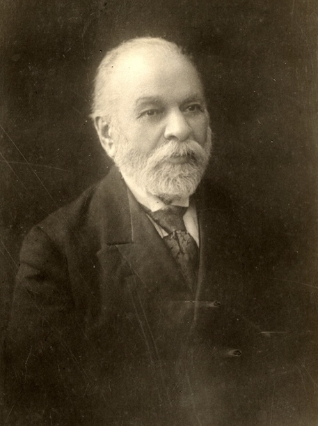 Ismail Qemali (1844-1919) - Albanian politician and founder of the modern Albanian State.